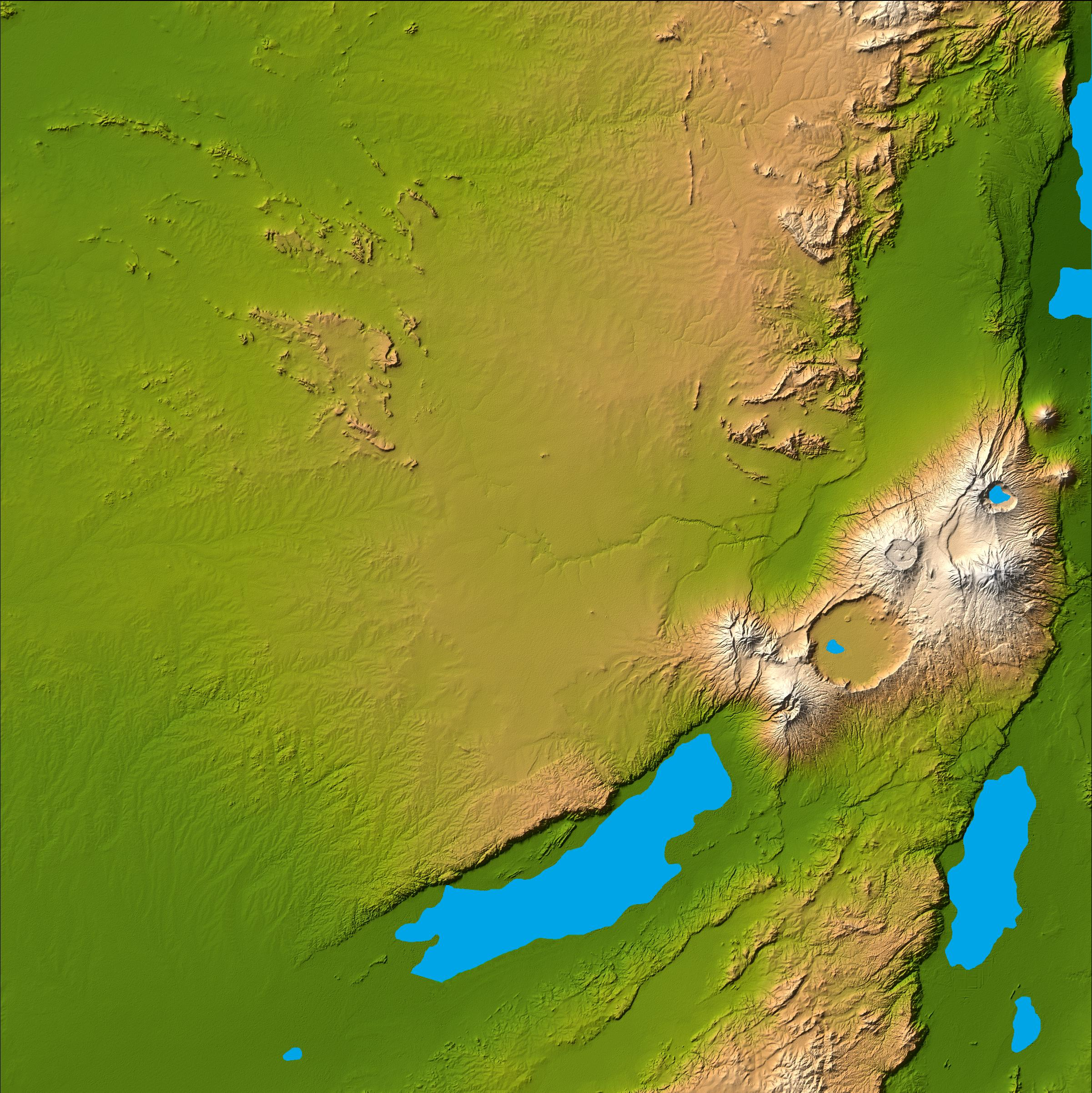 Topography of Olduvai Gorge